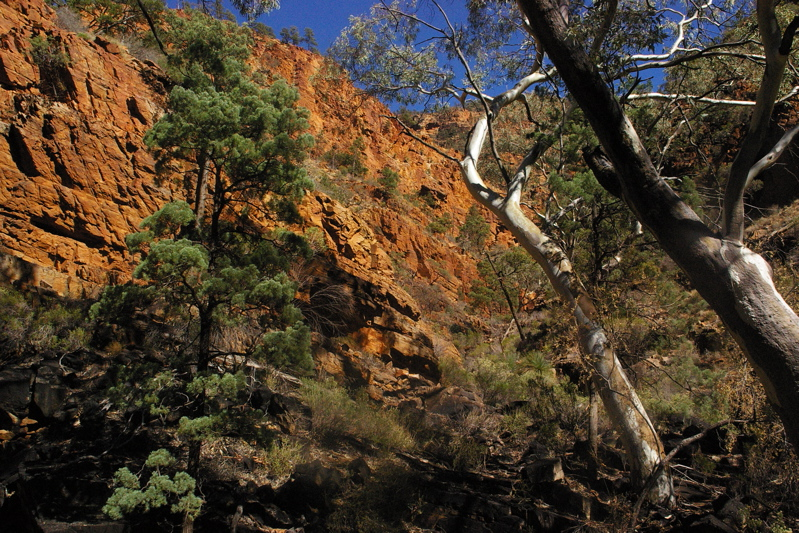 Gammon Ranges, South Australia. Taken by myself.